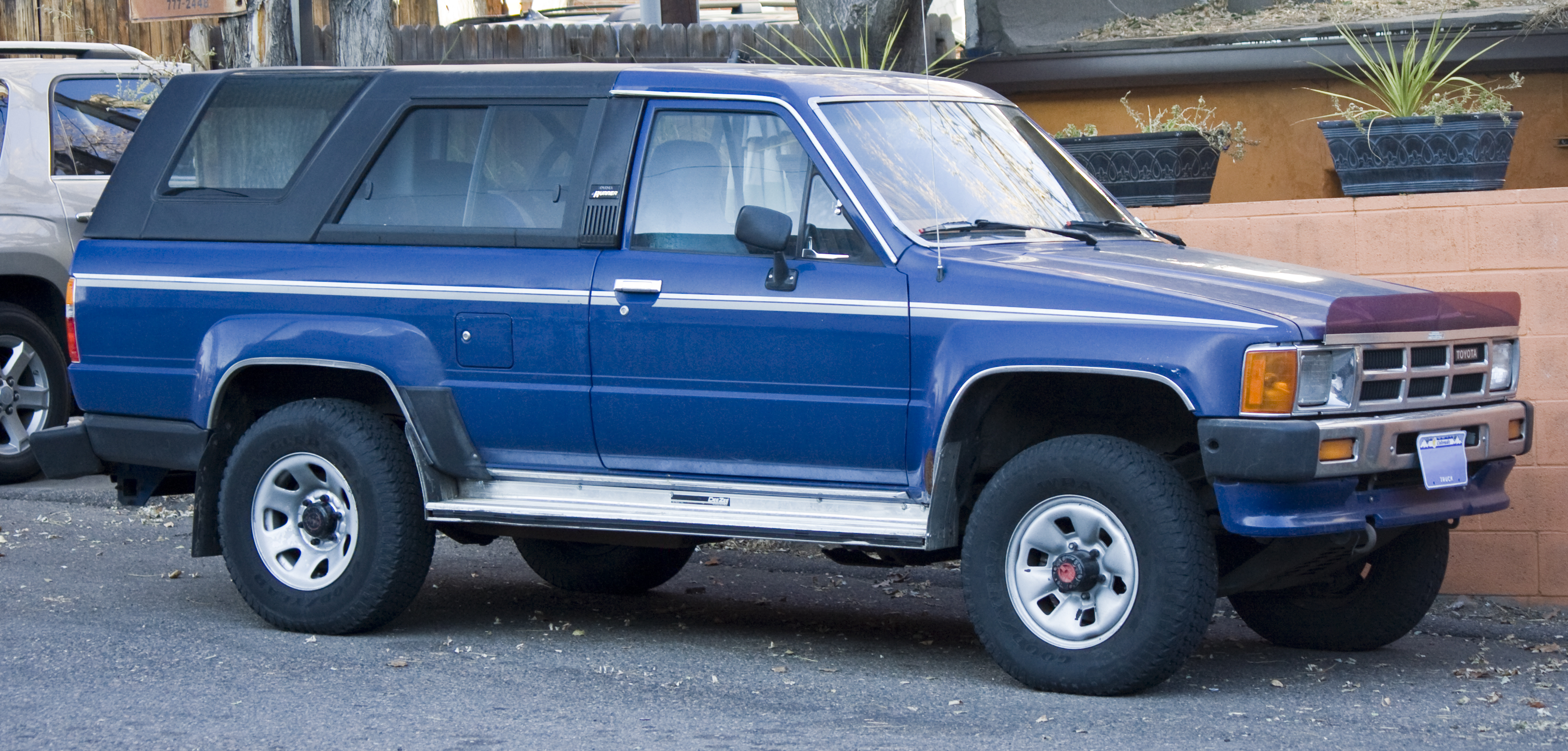 1986 Toyota 4Runner (first generation), base model equipped with the fuel injected 22R-E engine.